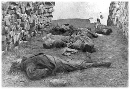 Victims of the white terror Izhevsk 1918